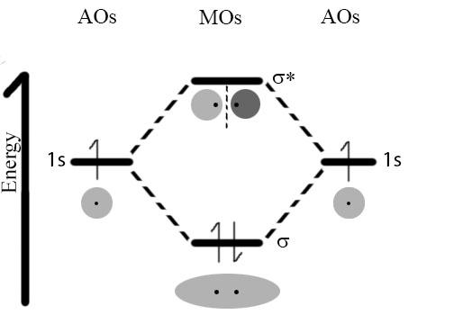 Molecular Orbital Diagram of H2. Bond order = 1. LCAO representation under each AO/MO.